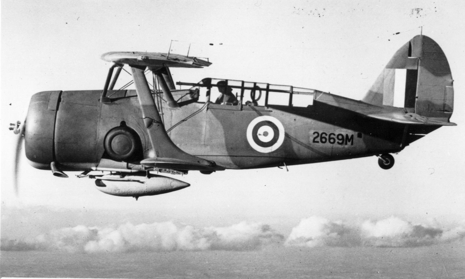 Curtiss Cleveland Mk. I of the Royal Air Force flying over Canada.